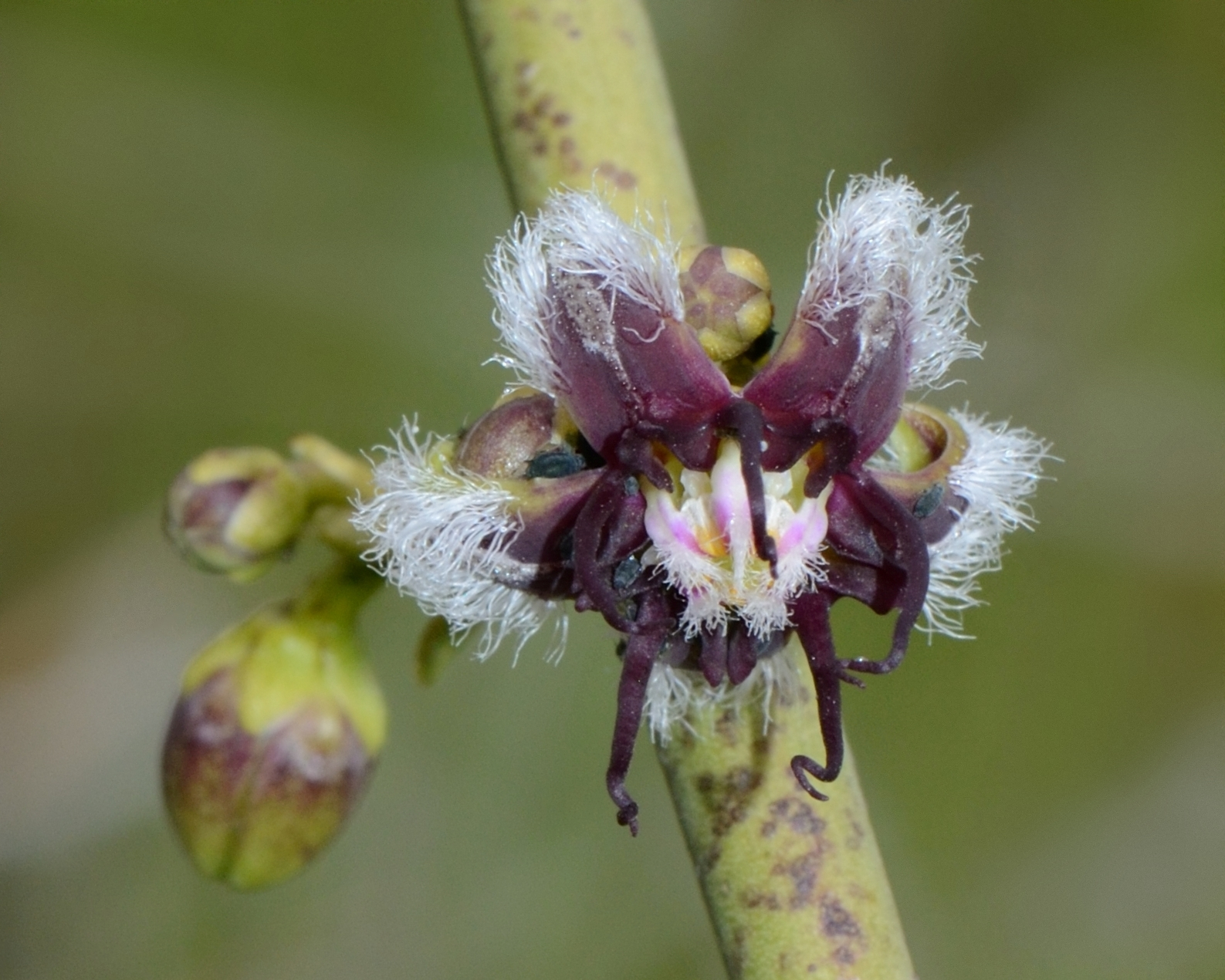 Periploca aphylla, Tel Shaharit, Jordan Valley, Israel, February 23, 2012.